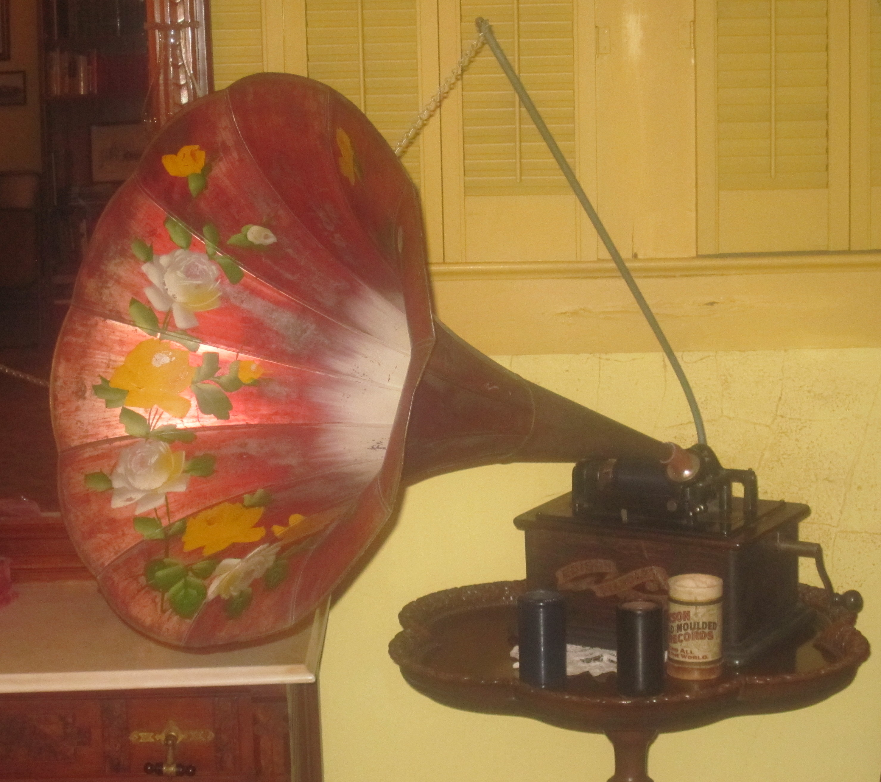 Early phonograph in Deaf Smith County Museum, Hereford, Texas, USA. This is an Edison phonograph, which played recordings made on cylinders of wax. A needle attached to a diaphragm at the narrow end of the flowerlike acoustic horn rested in a groove in the wax which records the sound vibrations. The device was wound up by turning the crank (visible on right side of machine). Then a mainspring in the mechanism turned the wax cylinder, and the displacements of the groove caused the needle to vibrate, which were translated into sound waves by the diaphragm, and came out the horn. Two black wax cylinder recordings are seen in front of the machine.